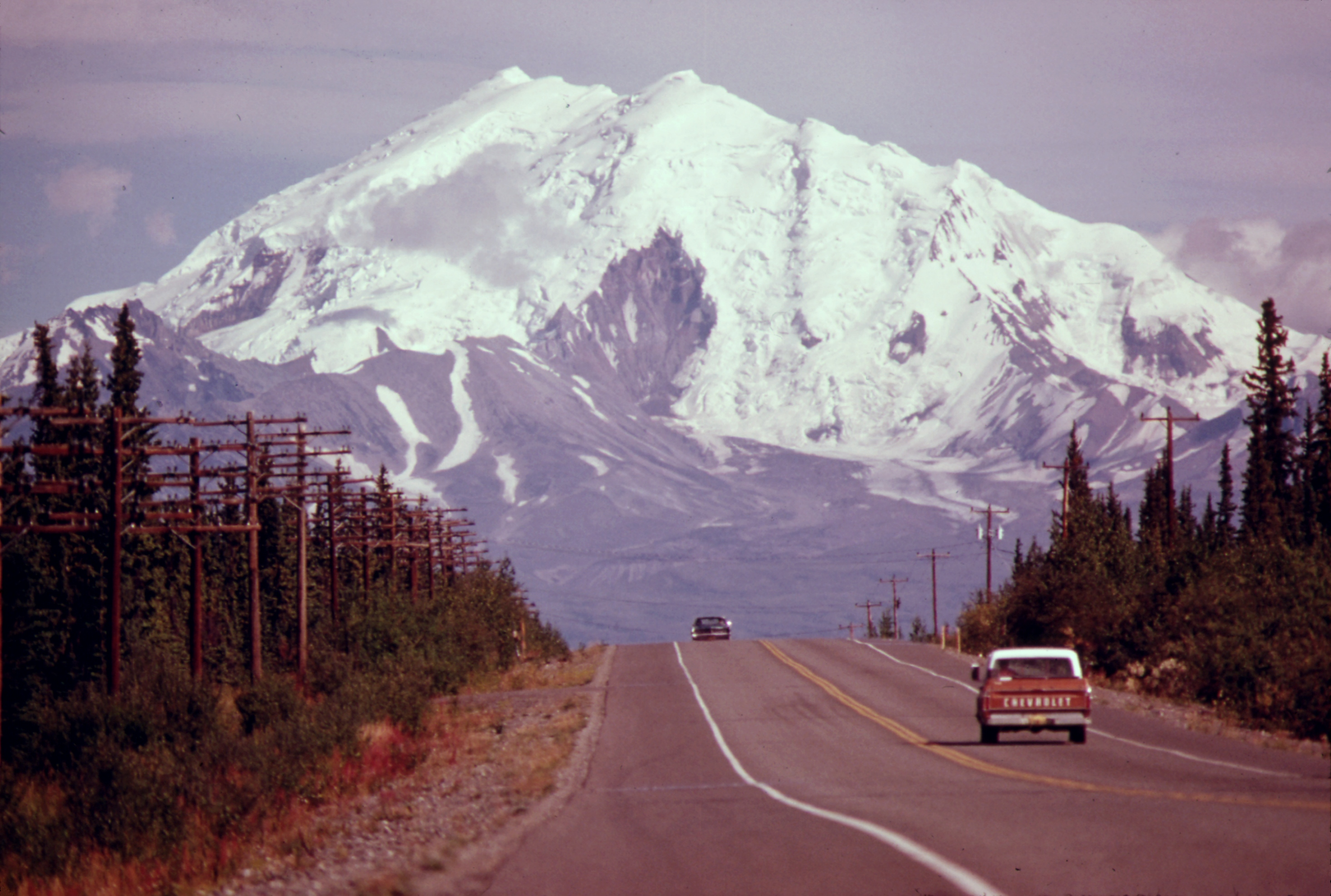 Original Caption: View East Along Glenn Highway Toward Mount Drum (Elevation 12,002 Feet) and Intersection of Road and Trans-Alaska Pipeline. The 48-Inch Diameter Pipeline Will Cross the Roadway between the Two Vehicles. The Exact Point Is Marked by a Pair of Wooden Stakes Along the Right Shoulder. Mile 673, Alaska Pipeline Route 08/1974 U.S. National Archives’ Local Identifier: 412-DA-13201 Photographer: Cowals, Dennis, 1945- Subjects: Alaska (United States) state Environmental Protection Agency Project DOCUMERICA Persistent URL: Repository: Still Picture Records Section, Special Media Archives Services Division (NWCS-S), National Archives at College Park, 8601 Adelphi Road, College Park, MD, 20740-6001. For information about ordering reproductions of photographs held by the Still Picture Unit, visit: Reproductions may be ordered via an independent vendor. NARA maintains a list of vendors at Buy copies of selected National Archives photographs and documents at the National Archives Print Shop online: Access Restrictions: Unrestricted Use Restrictions: Unrestricted